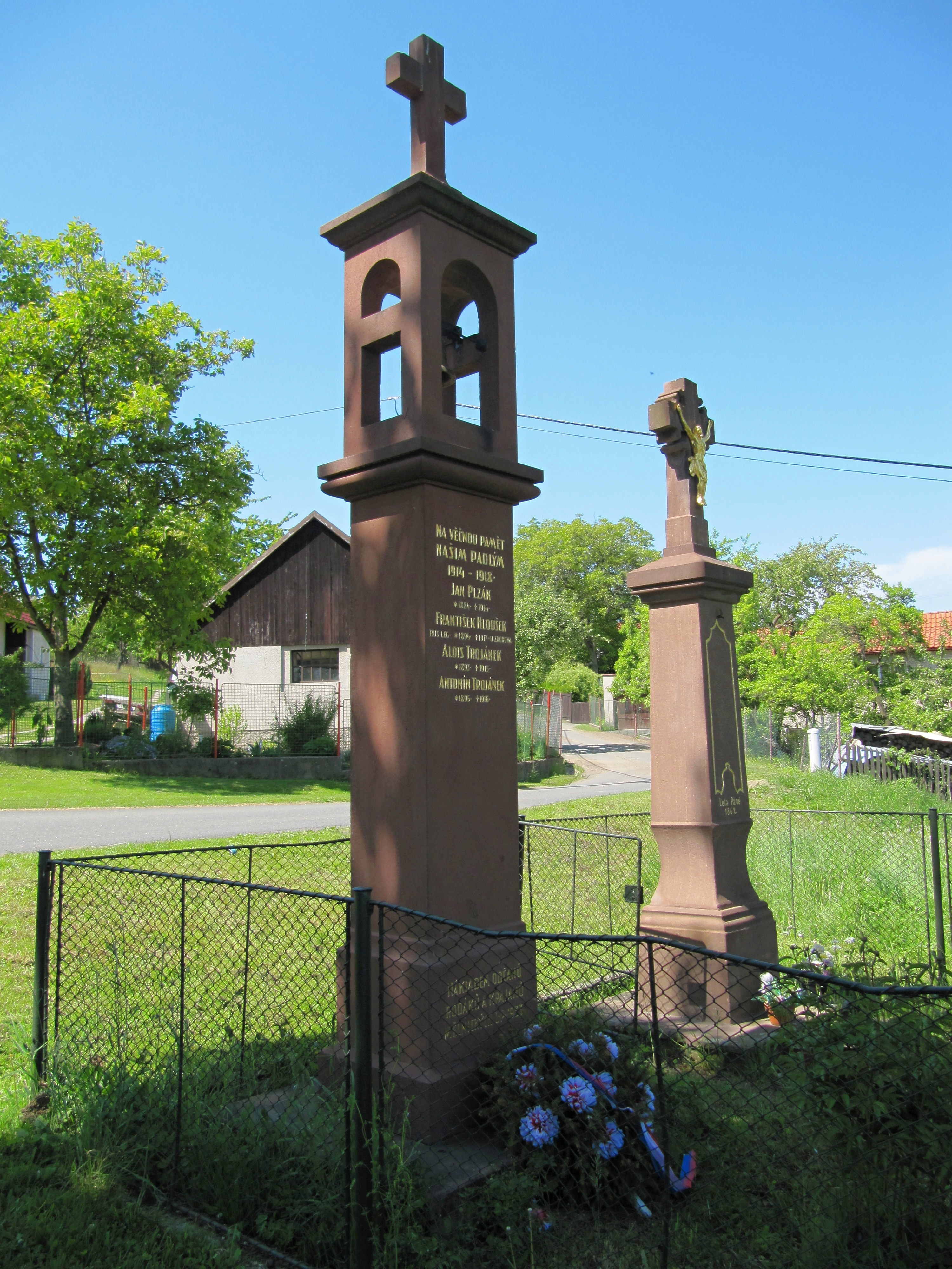 Úžice in Kutná Hora District, Czech Republic, part Mělník. Belfry and crucifix from 1862.